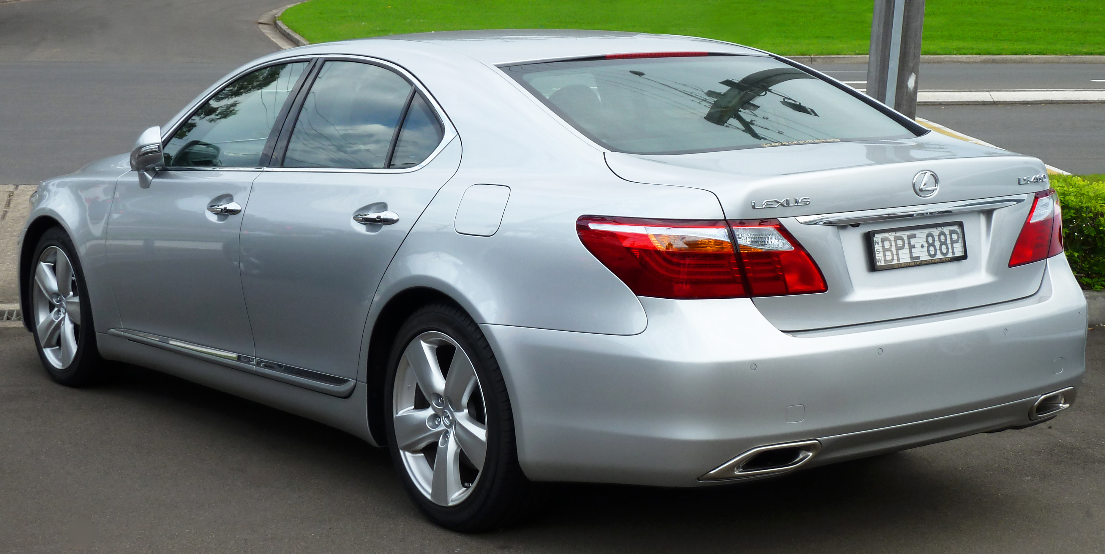 2010–2011 Lexus LS 460 (USF40R MY10) sedan. Photographed at Lexus of Sutherland, Kirrawee, New South Wales, Australia.